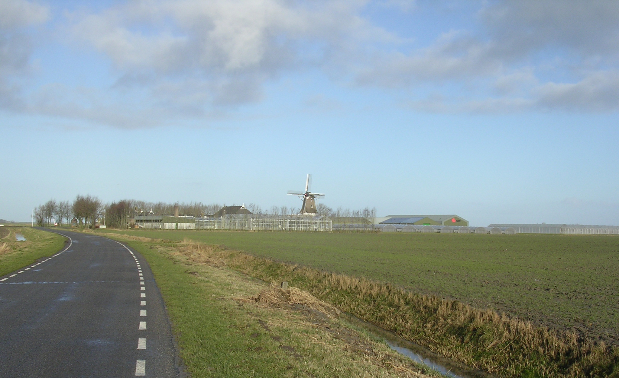 Het kweekbedriuw fan de HCPZ op Ropta (The selection and facility of HZPC at Metslawier)